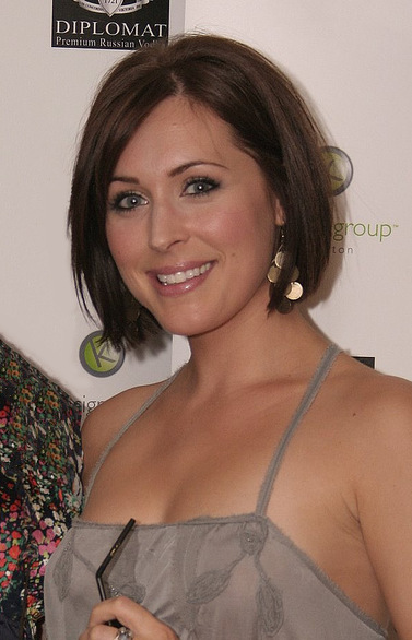 Hollyoaks actress Jennifer Biddall at an event